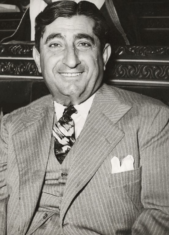 Badawi al-Jabal, a poet and member of the Syrian parliament seated among a group of other legislators. The image has been cropped.